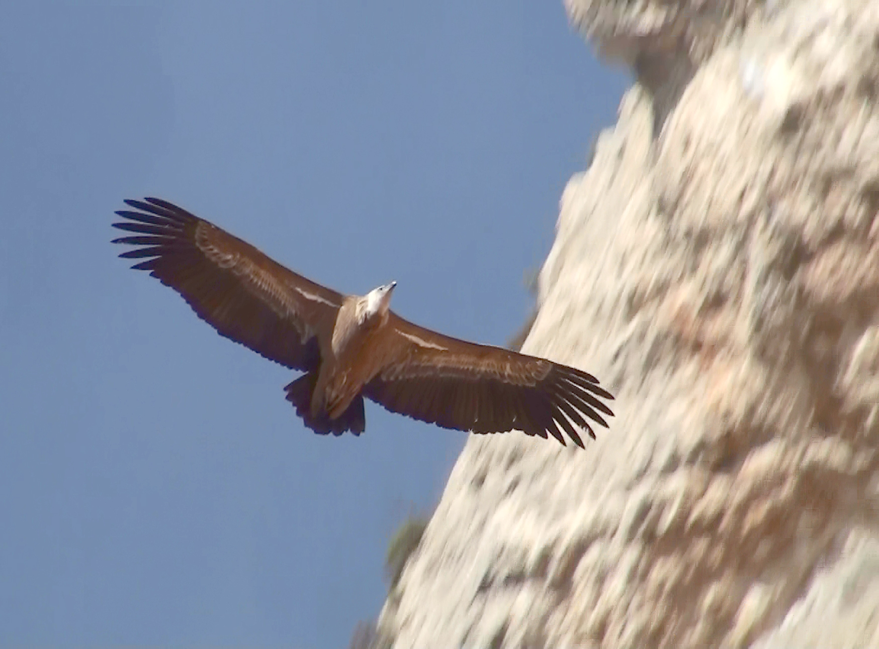 Griffon Vulture in flight over Montsec, Lleida, northeast Spain.